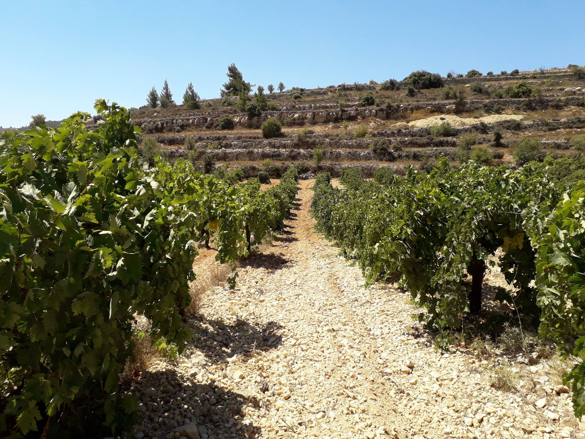 This is one of our vineyards on the outskirts of the village of Al Khader, just south of Bethlehem. These are Dabouki goblet vines.